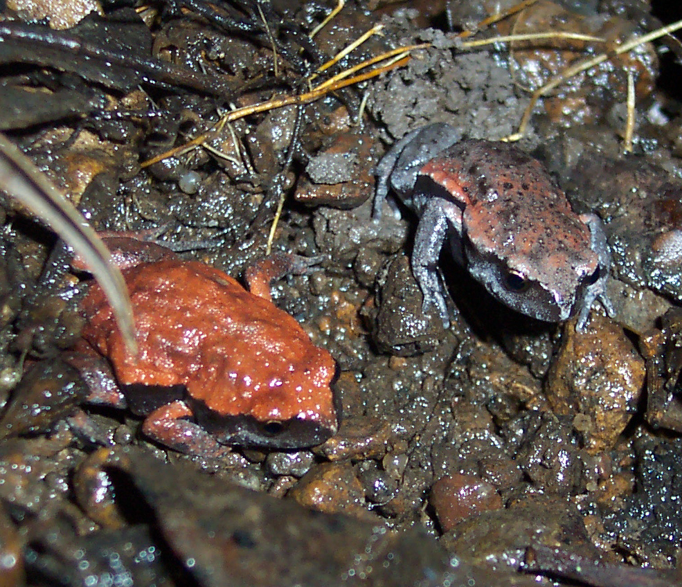 Two Red-backed Toadlets, (Pseudophryne coriacea). Normal red colouration on left, rare grey-red morph on right (possibly a hybrid between Pseudophryne coriacea and Pseudophryne bibronii).